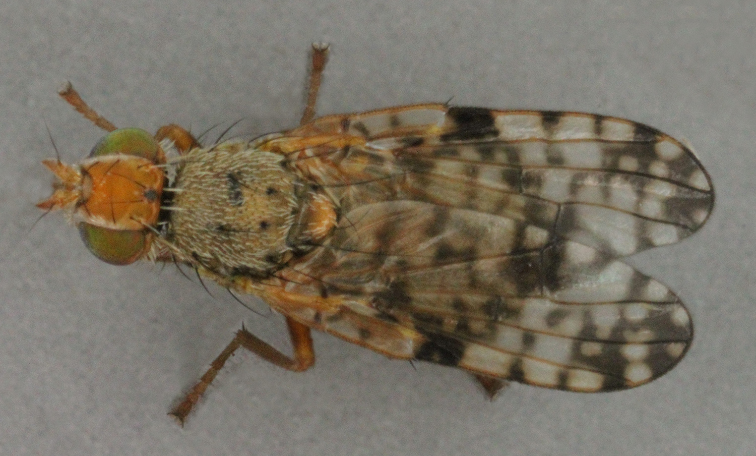 Paroxyna plantaginis, North Wales, July 2012 2